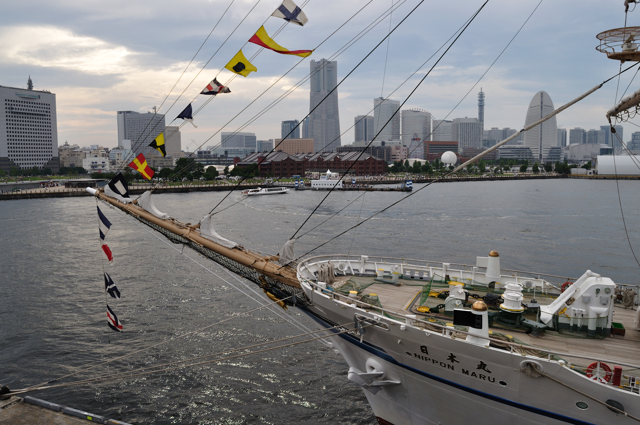 Port of Yokohama 横浜港